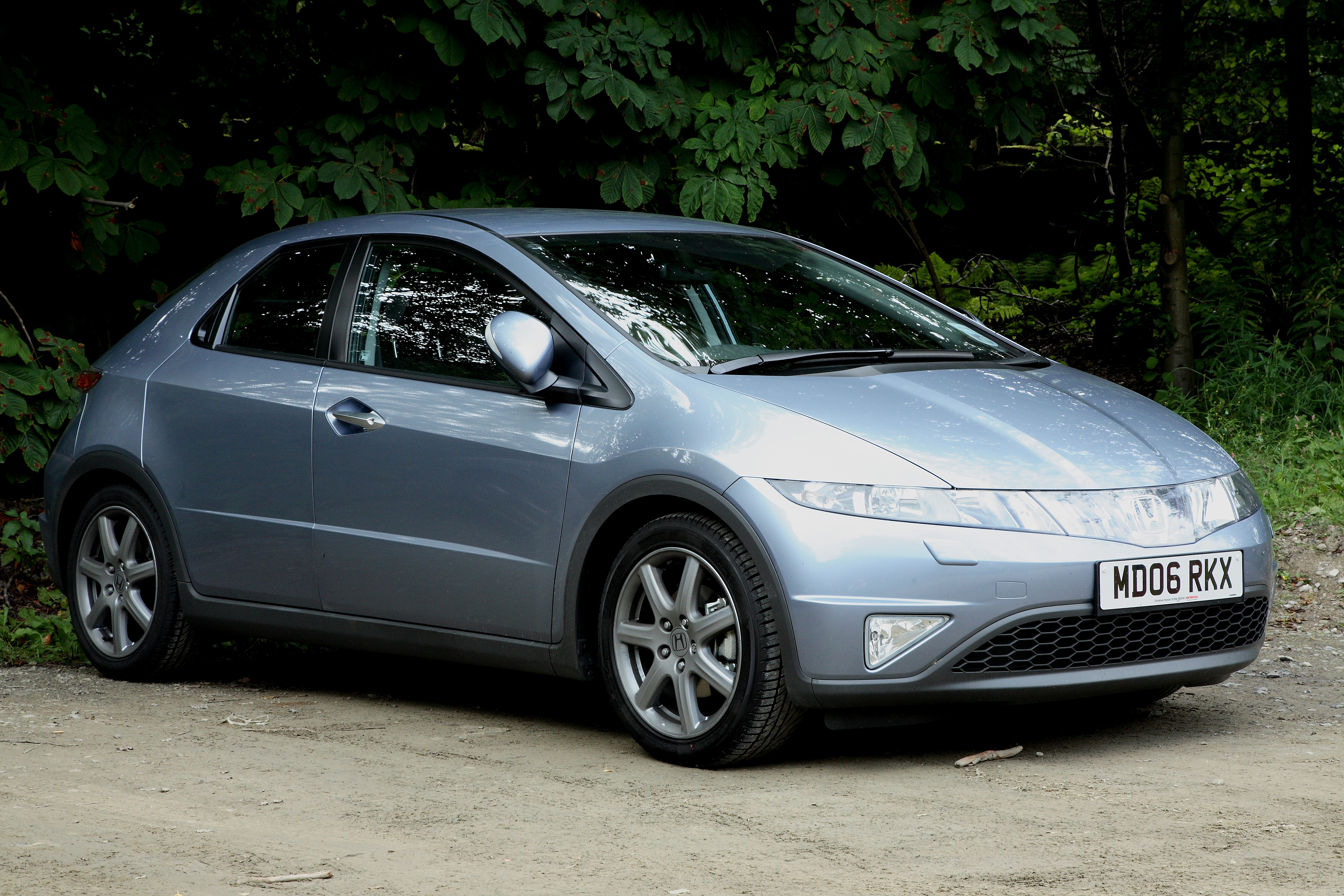 2006 Honda Civic 5-door, registered in the UK, 06-Reg Original photograph modified using GIMP (removed license plate number, some touch-ups)